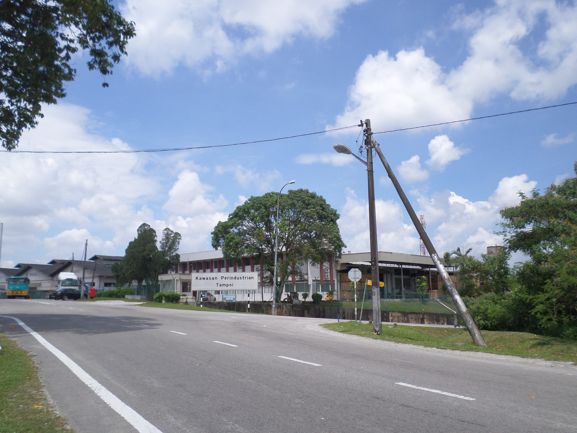 Tampoi Industrial Area, Johor Bahru, Johor, Malaysia